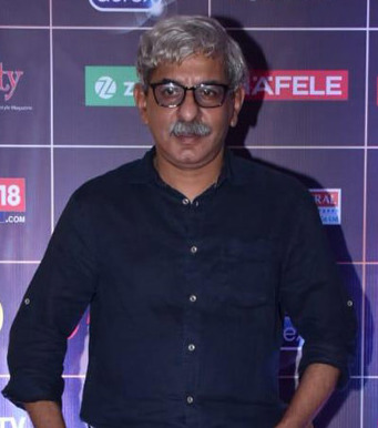 Sriram Raghavan at News 18 Reel Movie Awards 2019